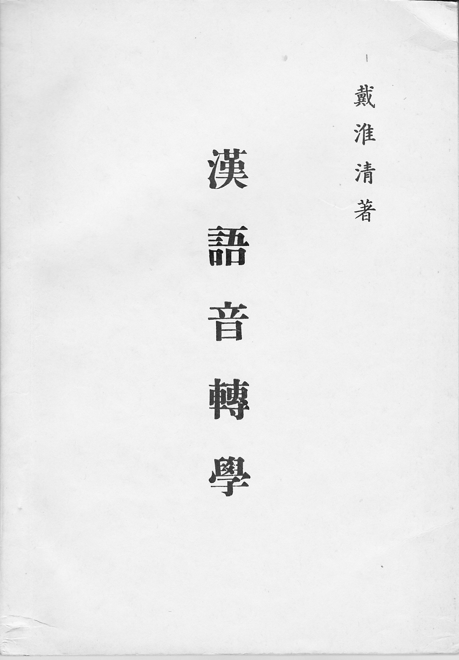 Phonom Changes in the Chinese Language, publish in Sigapore, 1974, now in public domain